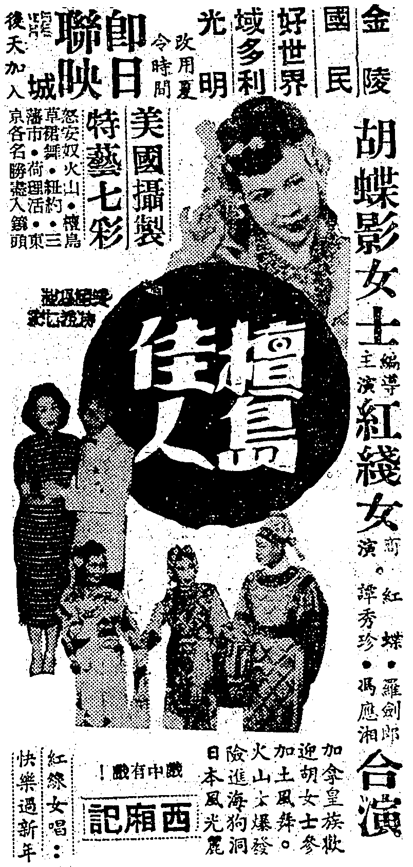 Hawaii Beauty (1953, HK Cantonese Colour Movie) Advertisement 中文（香港）: 1953年，粵語彩色電影《檀島佳人》的報章廣告。